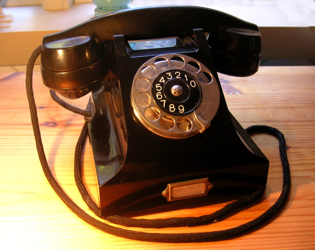 Ericssons Bakelittelefon 1931